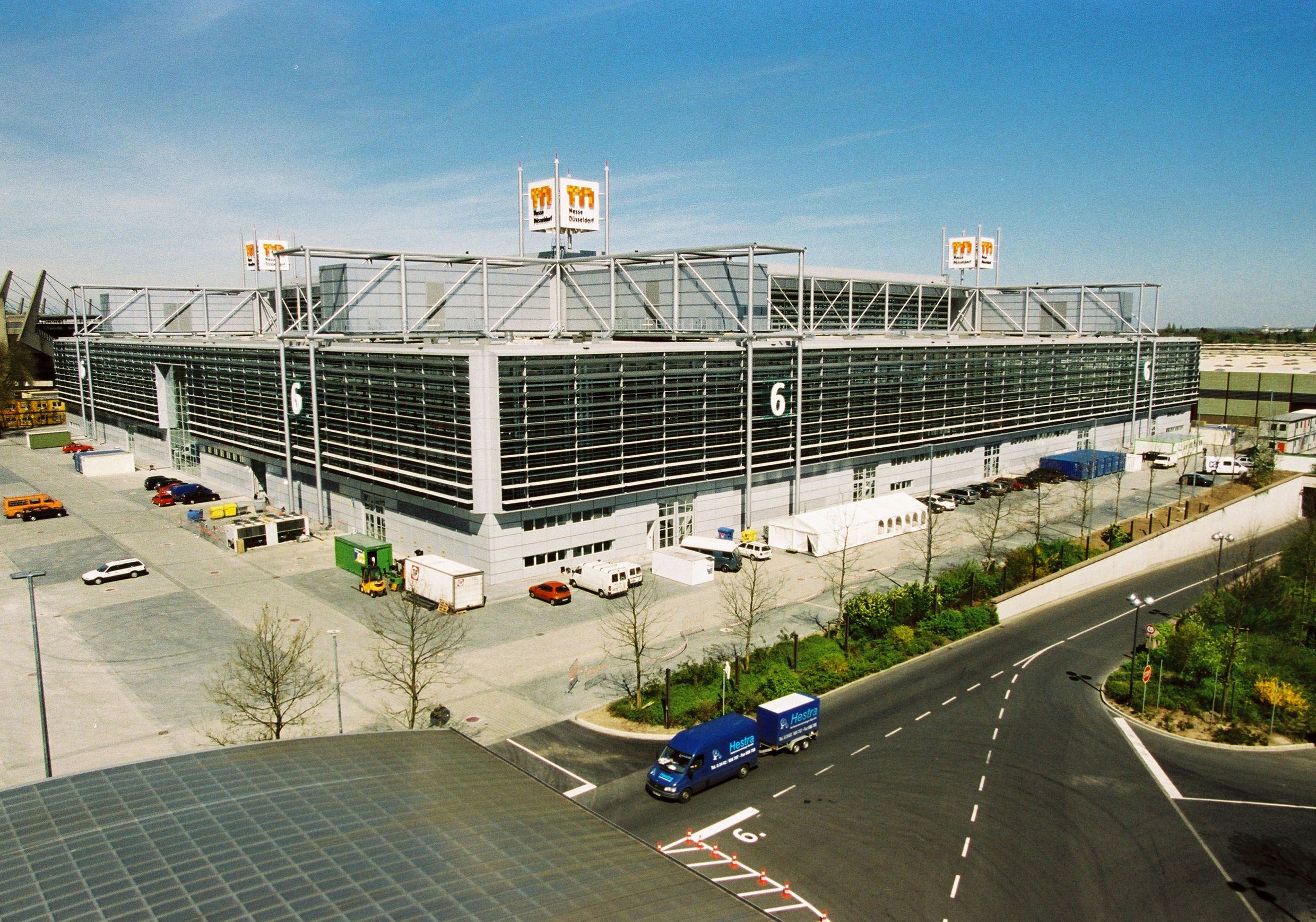 Hall 06 of Messe Düsseldorf GmbH